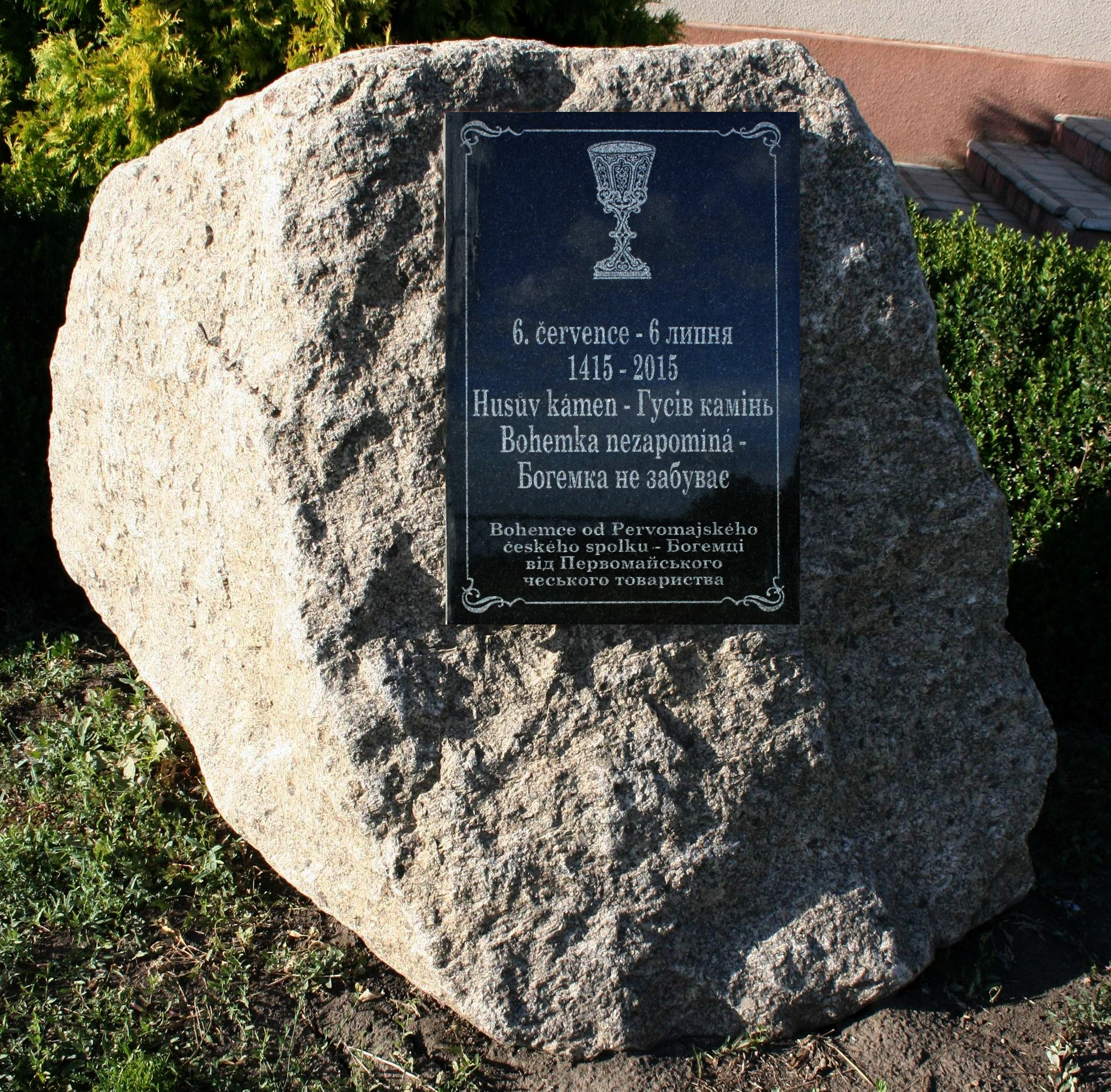 Hus stone (Conception and realization by Miloslav Jančík). Opened on September 12, 2015 in honor of the 600th anniversary of the burning of Master Jan Hus (John Hus) and the 110th anniversary of the village of Bohemka